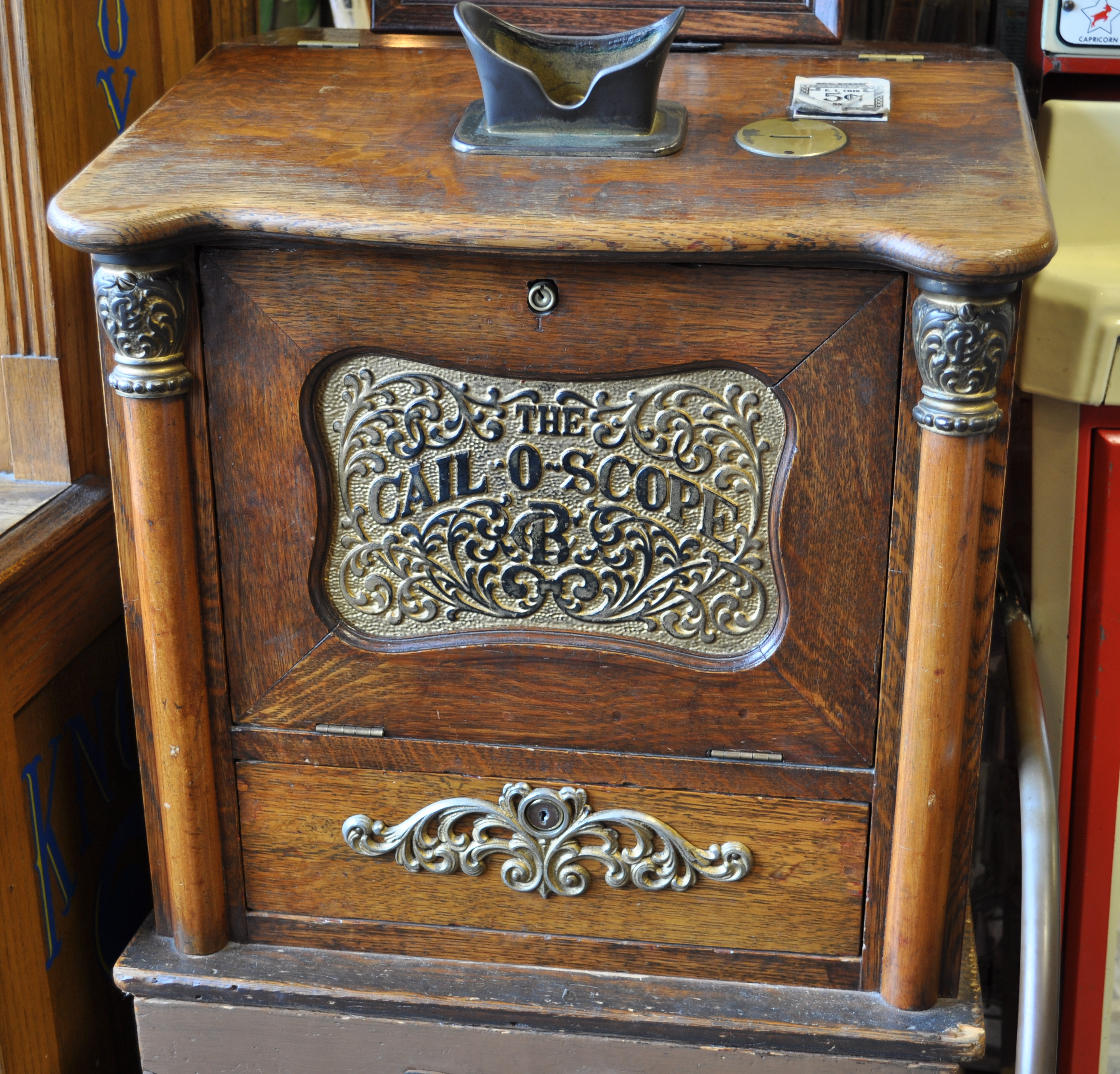 Cail-o-scope, a device by the Caille Brothers similar to Thomas Edison's Kinetoscope. Photographed at, Seattle, Washington, USA.